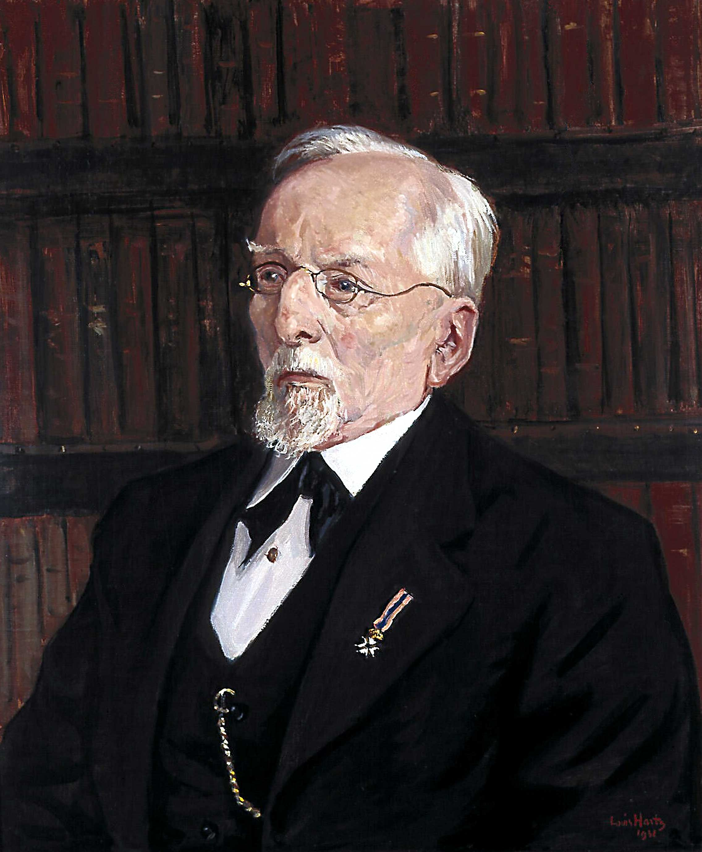 Martinus Theodorus Houtsma (1851-1943) Dutch orientalist